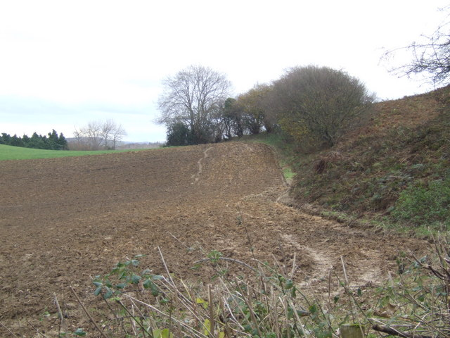 Castle Hill ramparts A natural feature; Castle Hill looks man-made from a distance.